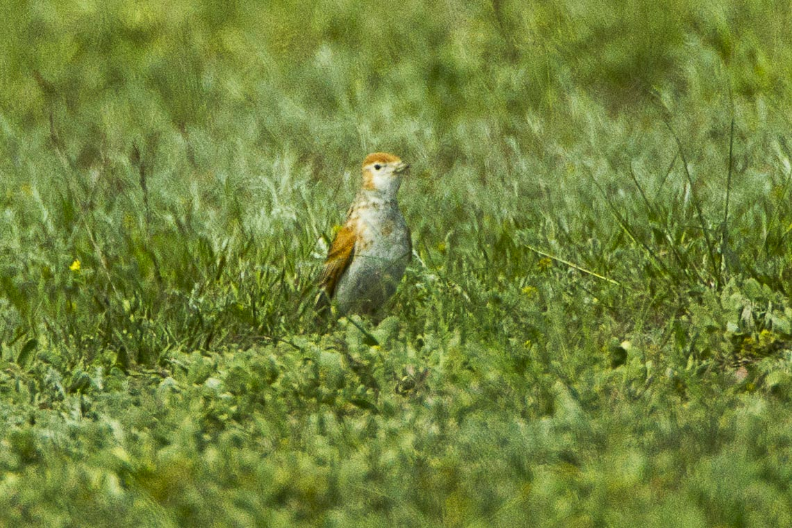 White-winged Lark - Kazakistan_S4E0496